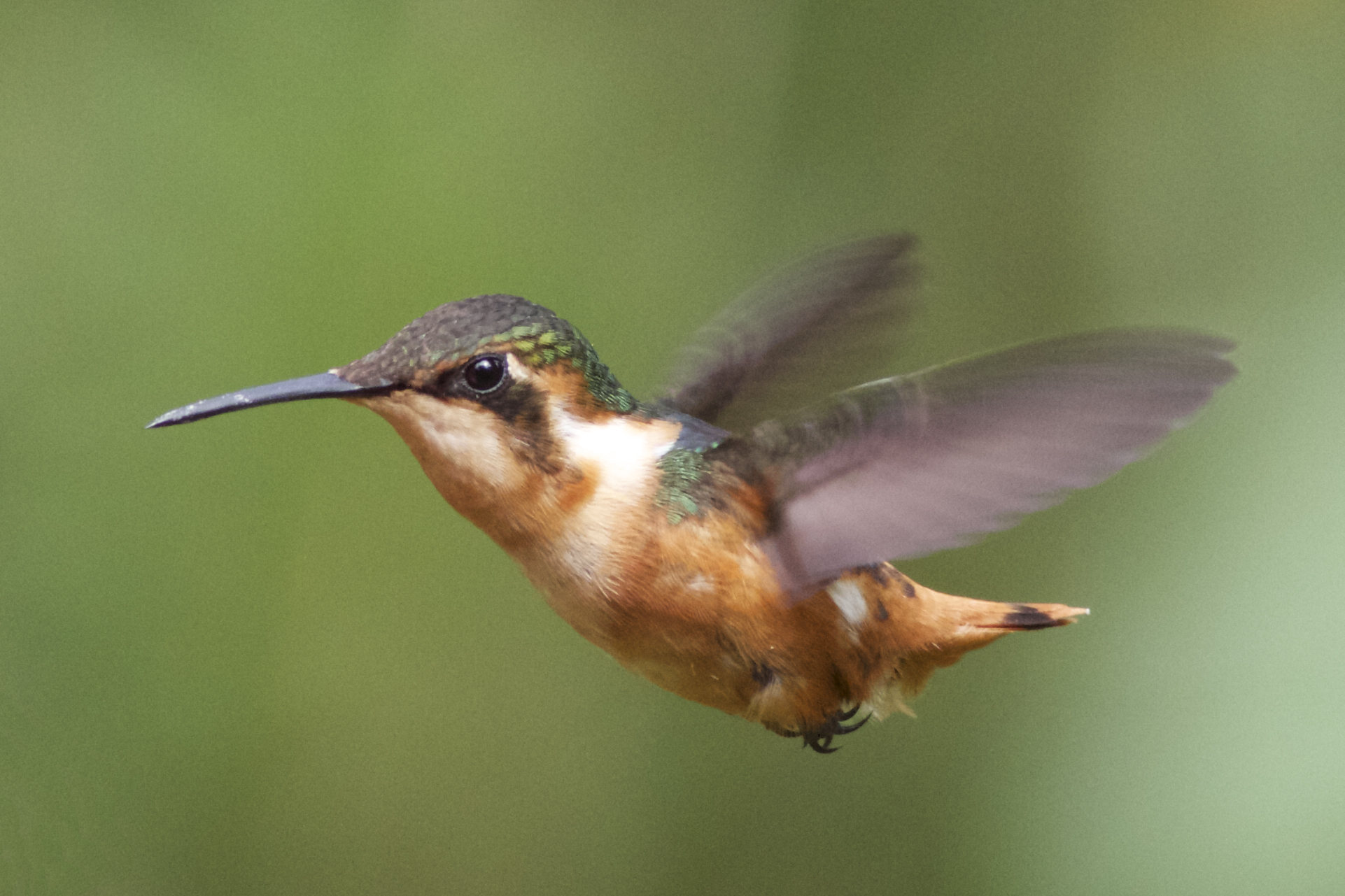 Gorgeted Woodstar (female) taken at San Isidro, NE Ecuador.